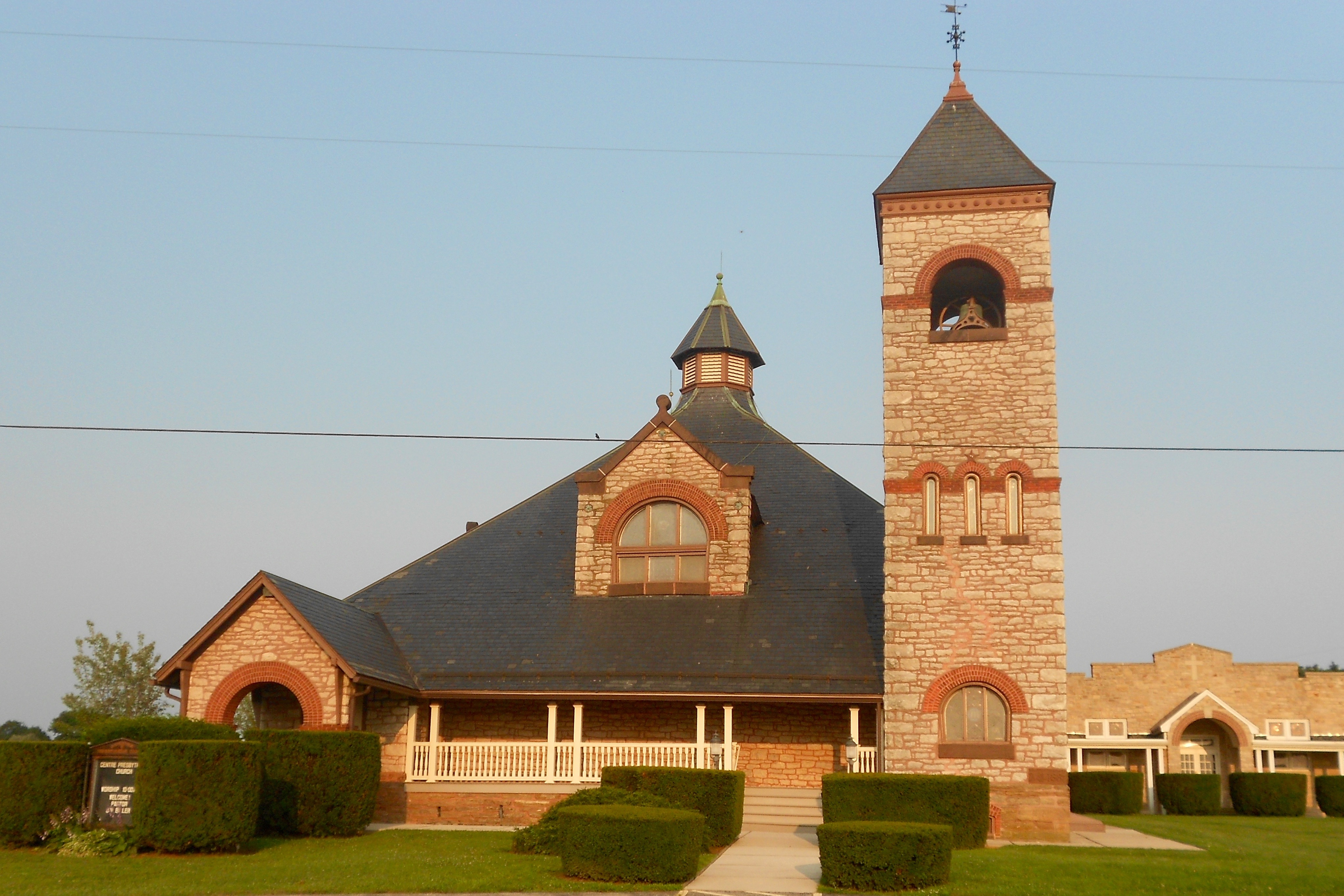 Centre Presbyterian Church in Fawn Township, York County, just north of the Maryland state line